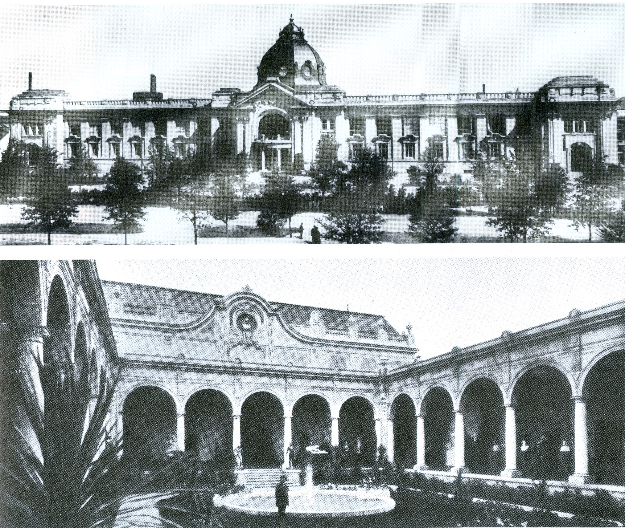 Kunstpalast in Düsseldorf, erbaut für die Industrie- und Gewerbeausstellung Düsseldorf im Jahr 1902, Grundriss Entwurf Albrecht Bender, Fassade Entwurf Eugen Rückgauer, Fassaden.jpg